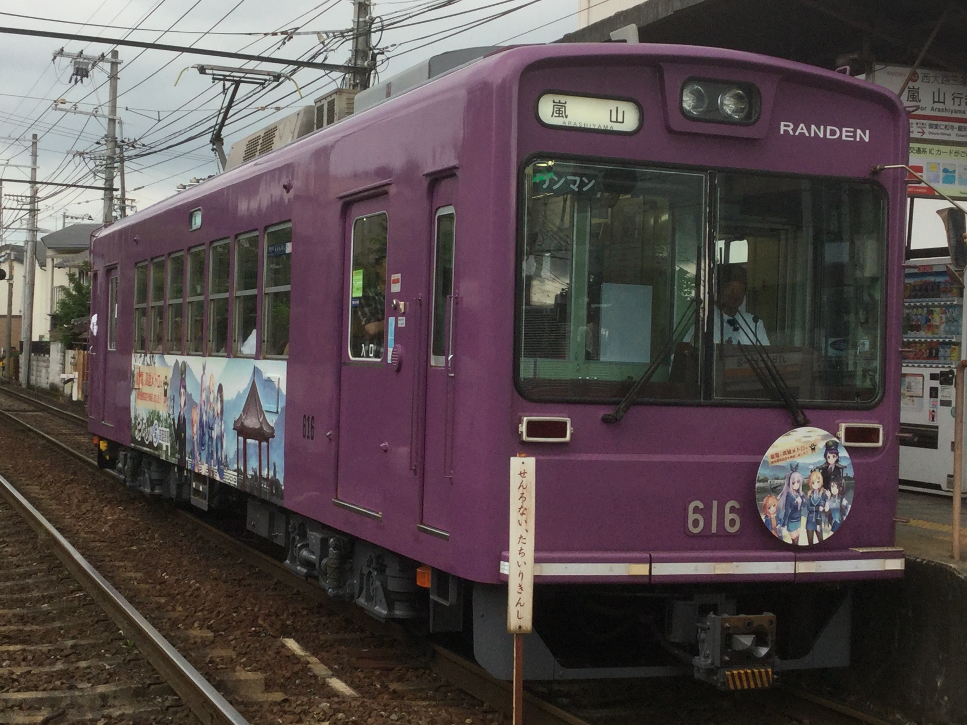 Keifuku Railway Arashiyama Line wrapping train of K.R.T.Girls at Nishi-Oji Sanjo Station.